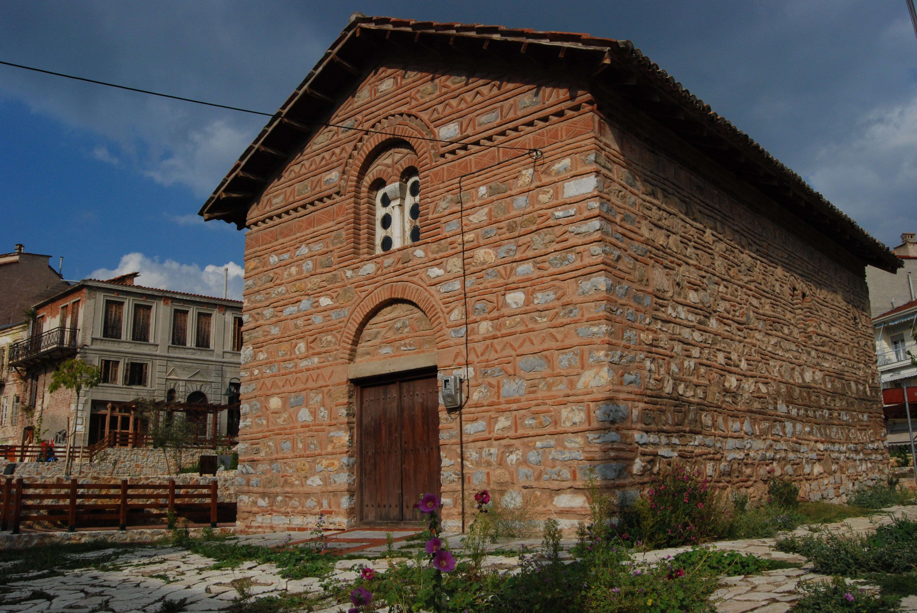 Church of Agios Nikolaos Kasnitzi, Kastoria, Greece.